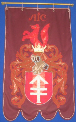 Lis (polish coat of arms).